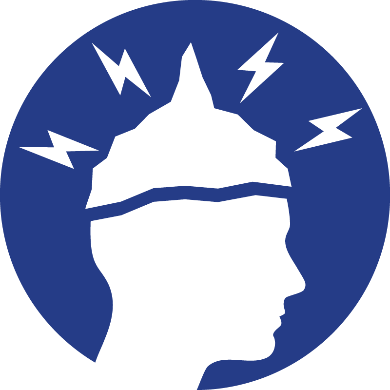 Conspiracy Theories Fallacy Icon Conspiracy theories involve the suggestion of secret plans to implement nefarious schemes, and are a common theme in climate misinformation. Please check the linked graphic to see where the fallacy falls in the overall taxonomy